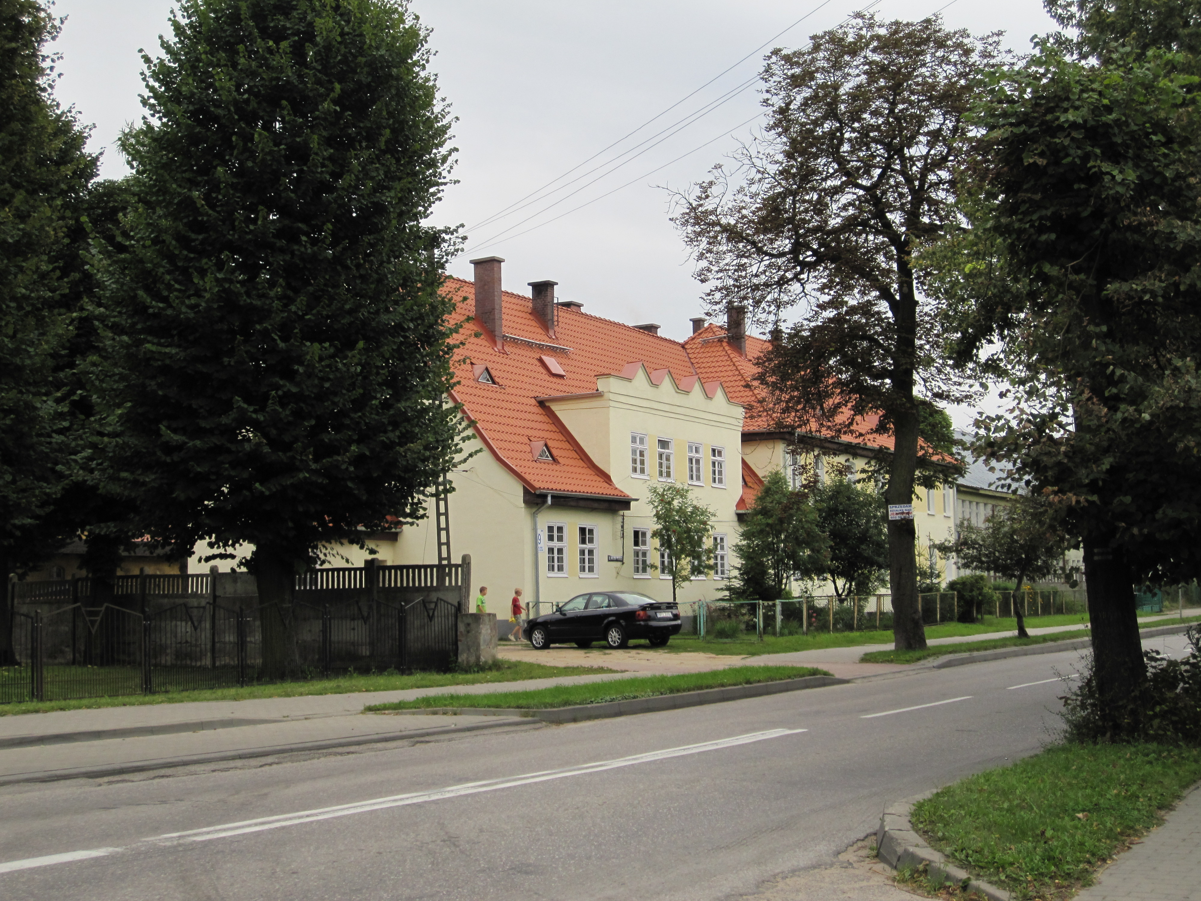 Building on 9 Wojska Polskiego street in Orzysz